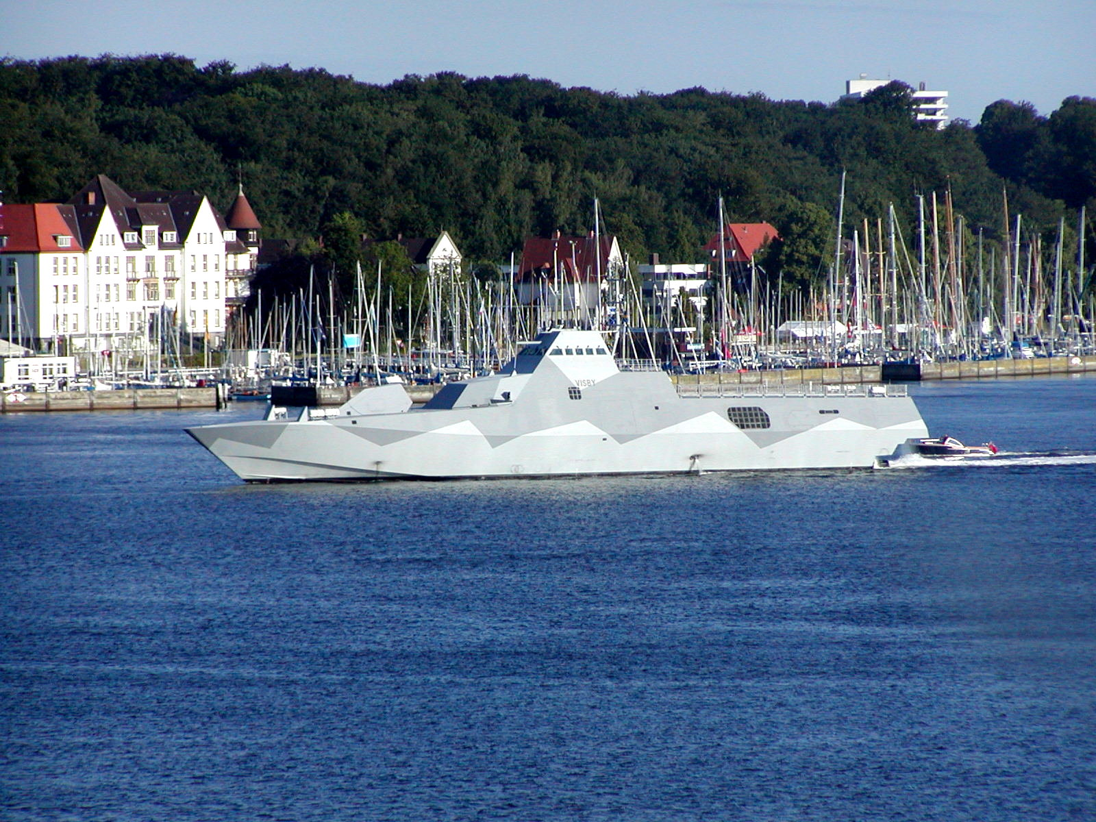 Swedish Visby class corvette at Kiel Week 2002.